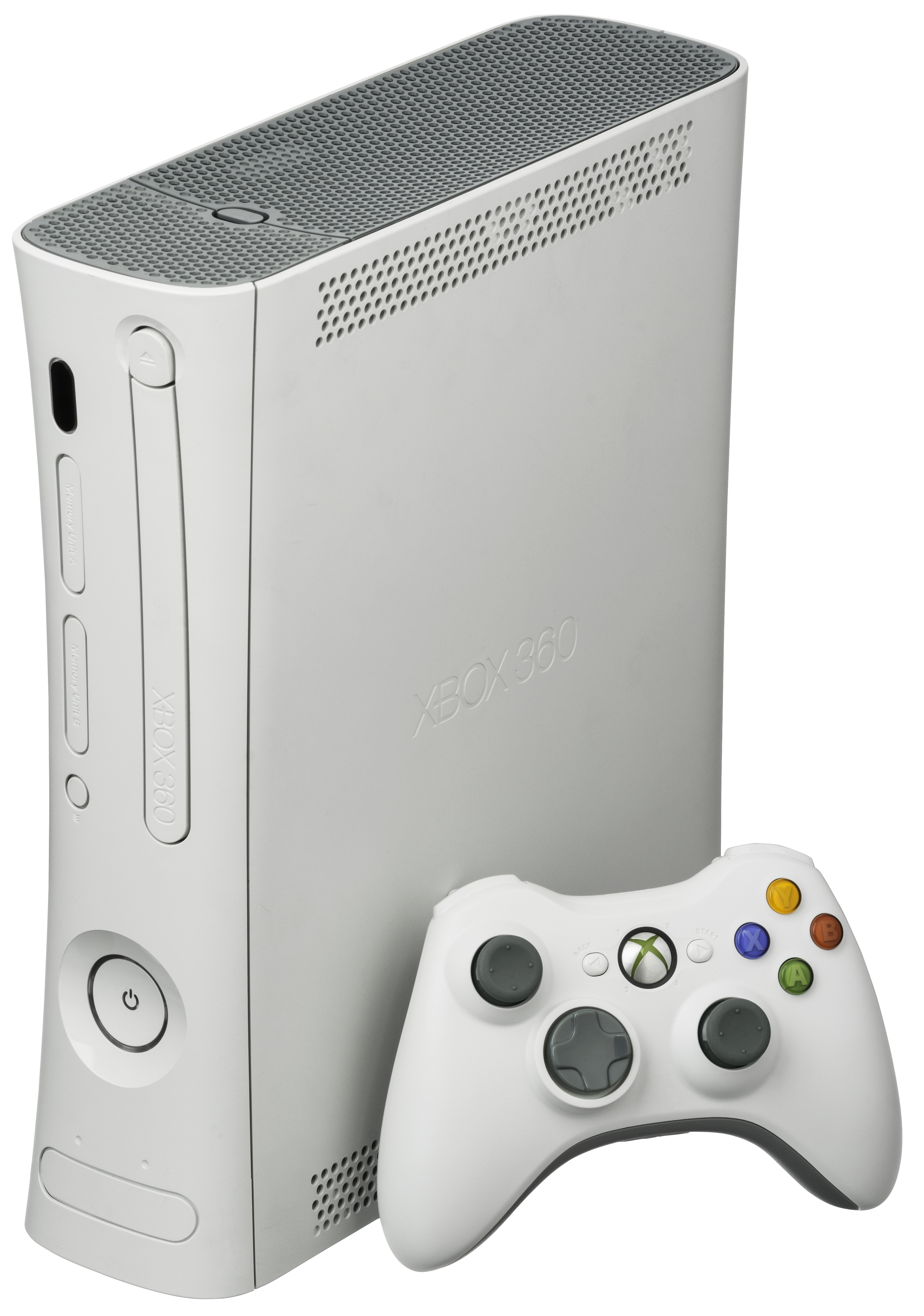 The Xbox 360, a video game console released by Microsoft in 2005. This is the "Arcade" model that was known for being the reduced model at the cheapest price. This specific version is the from the "Jasper" chipset, which featured 256MB of onboard memory, HDMI out, a wireless controller and a white DVD bezel. The production date of this unit is 2008-11-12.